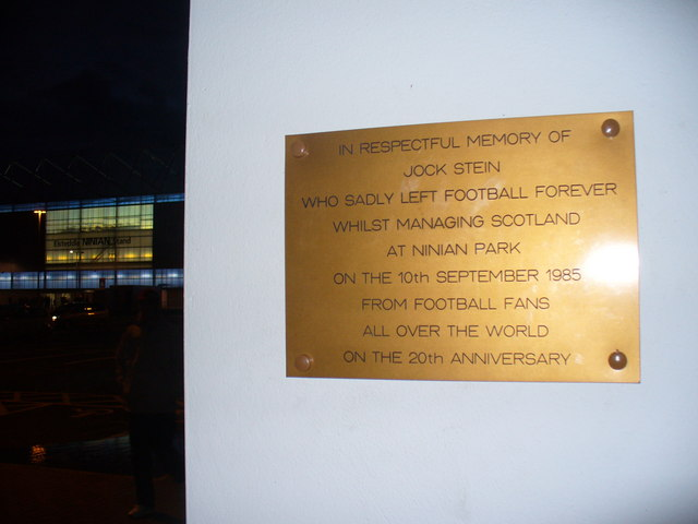 Jock Stein Memorial plaque for the Scottish football manager, Jock Stein. Formerly located at Ninian Park, it is now in the new gateway to Cardiff City Football Stadium.